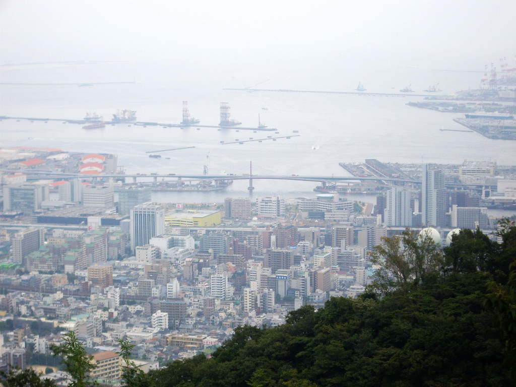 Maya Bridge